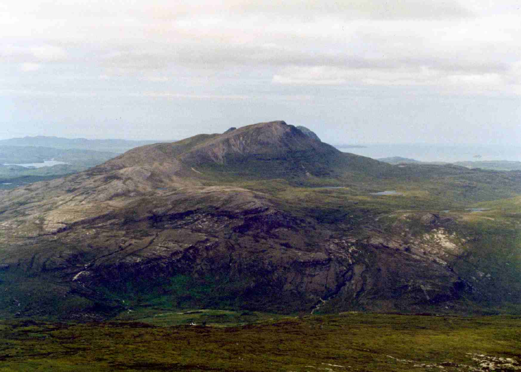 Personal picture taken by Mick Knapton